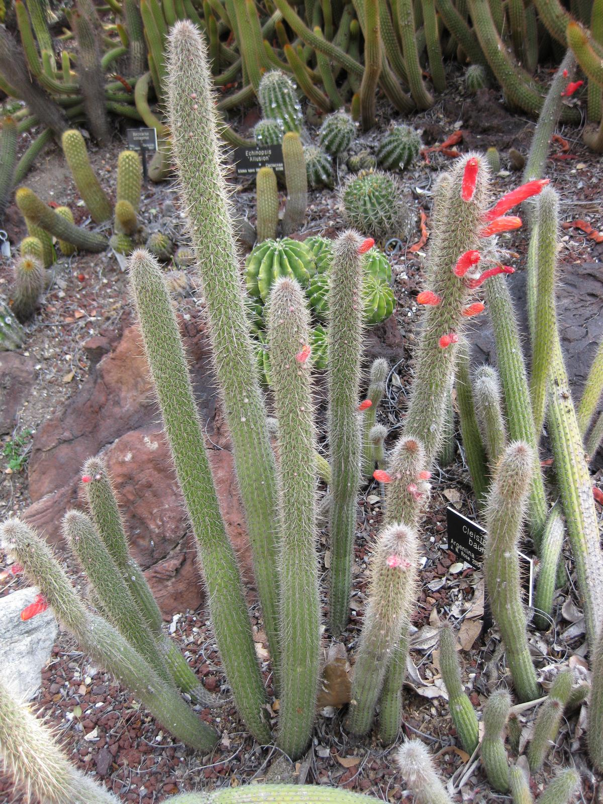 Photographed at Huntington Gardens (Los Angeles) in April